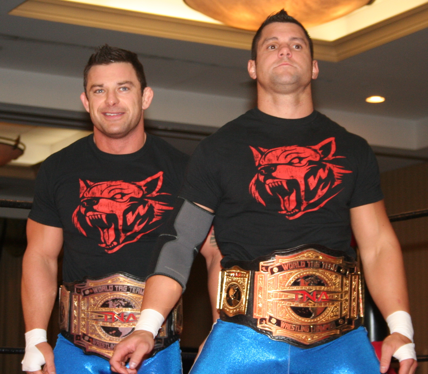 The American Wolves (Davey Richards, left, and Eddie Edwards, right) as the TNA World Tag Team Champions in August 2014 at the Mid-Atlantic Fanfest.